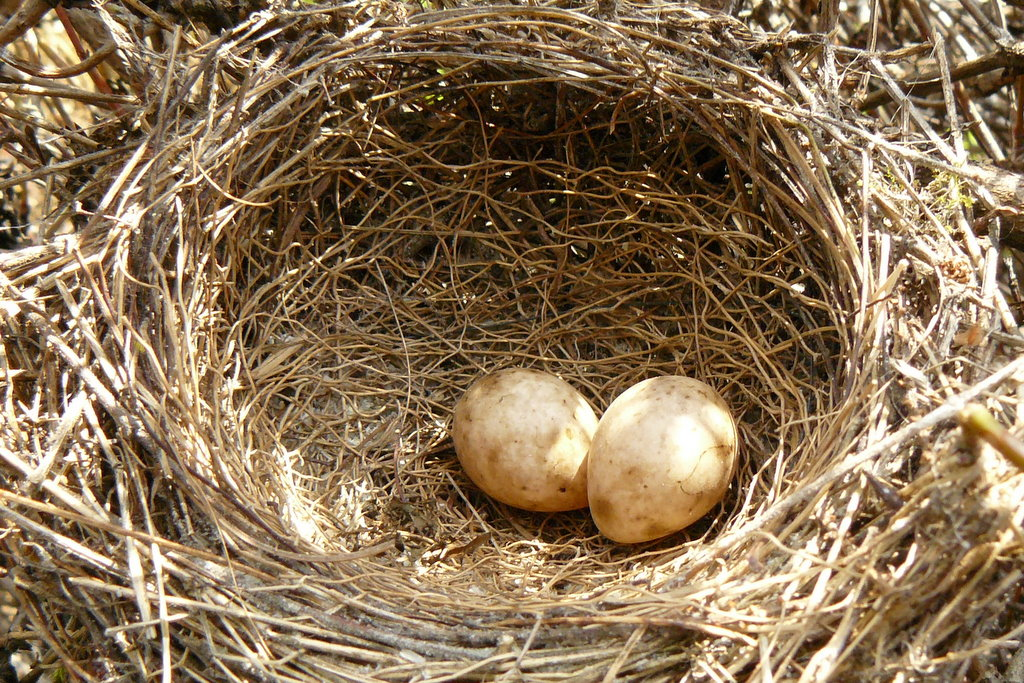 Sylvia atricapilla